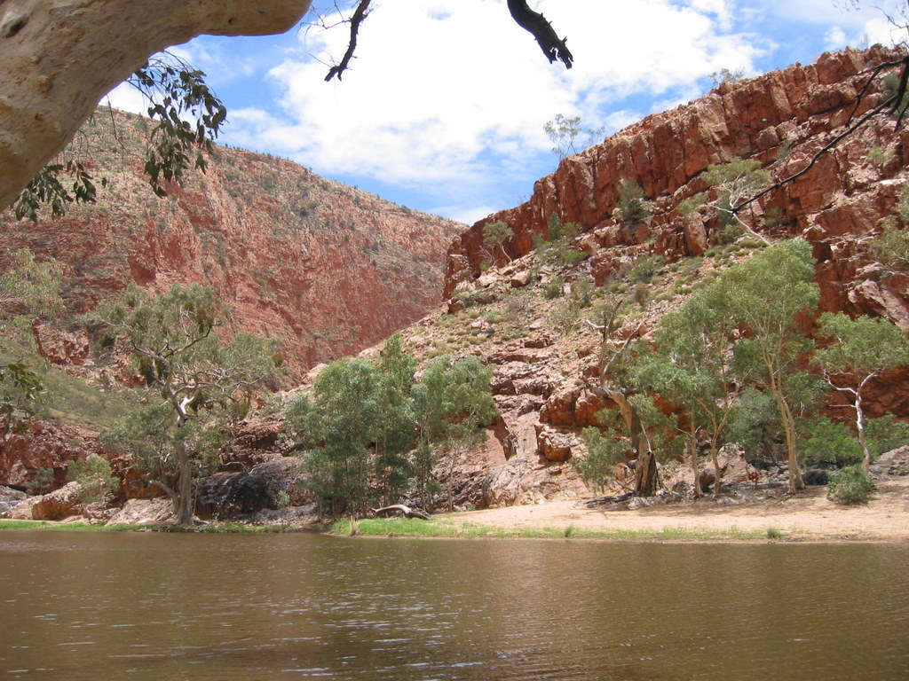 Ormiston Gorge River, MacDonnell Ranges, Australia